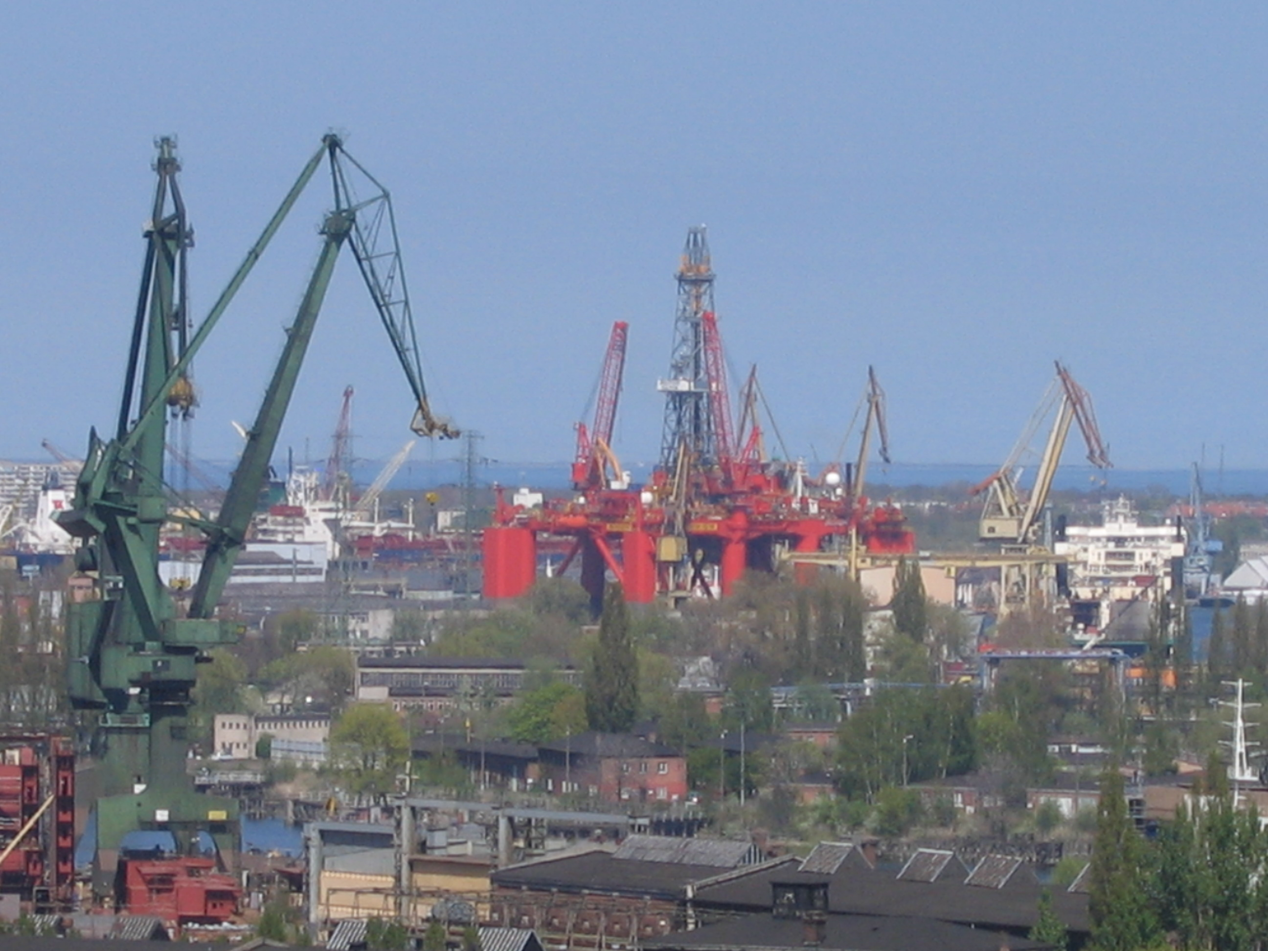 An oil platform under repair at Gdańsk Shipyard, Poland.